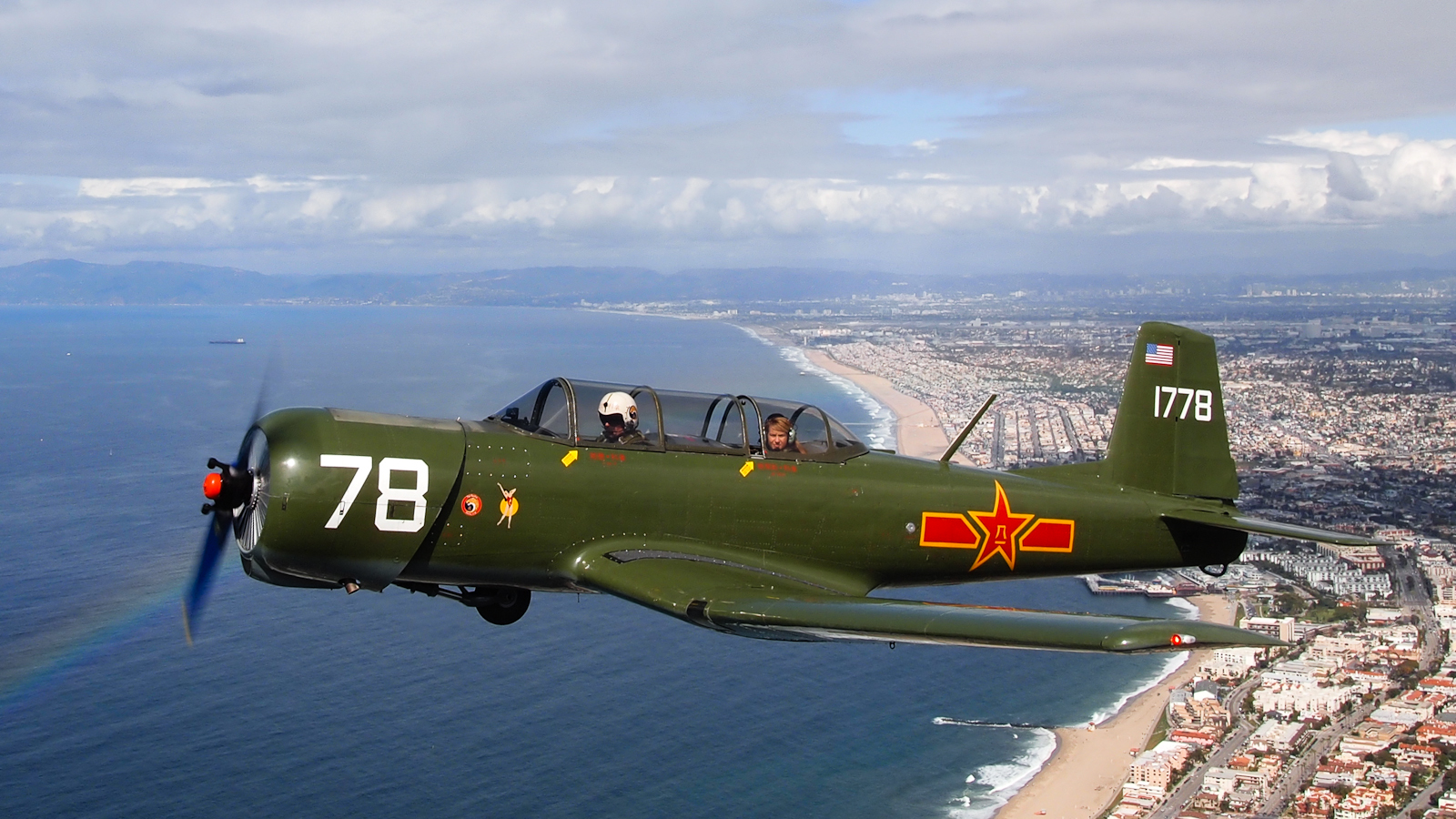 The photo shows a Nanchang CJ-6A aircraft flying over the Pacific.